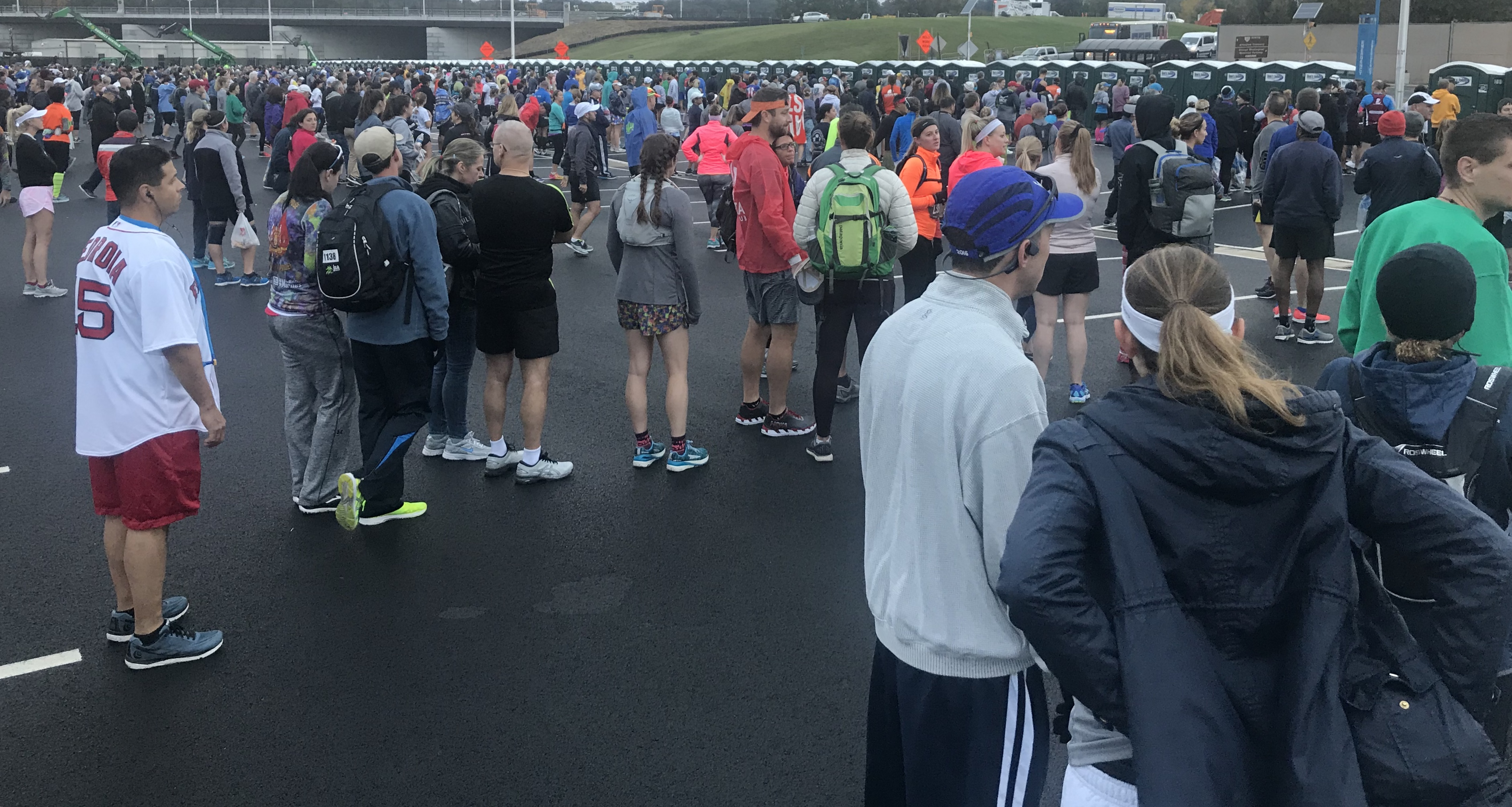 Line for restrooms at 2018 Marine Corp Marathon